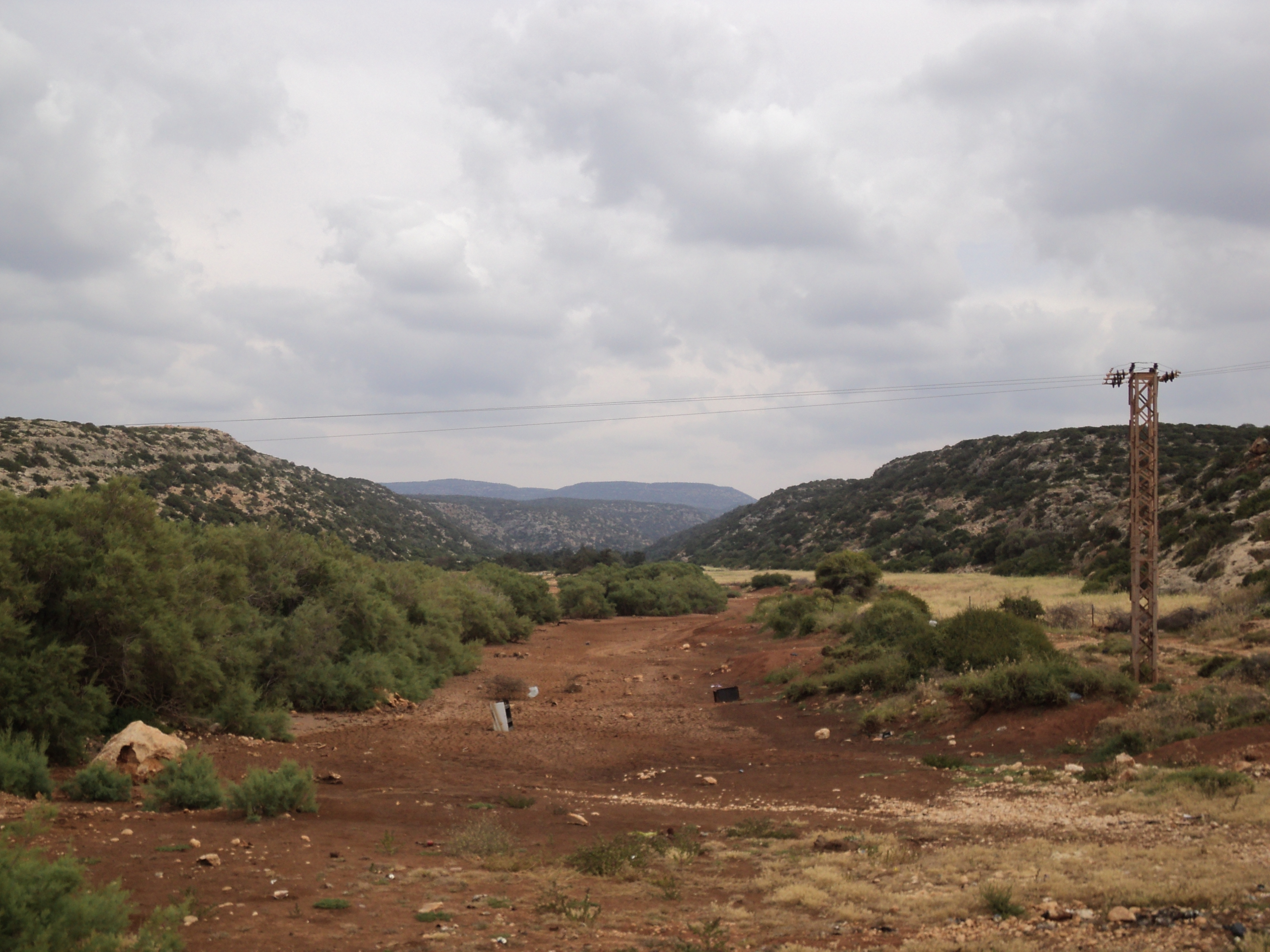 Wadi Jarjarama, Jebel Akhdar, Libya.